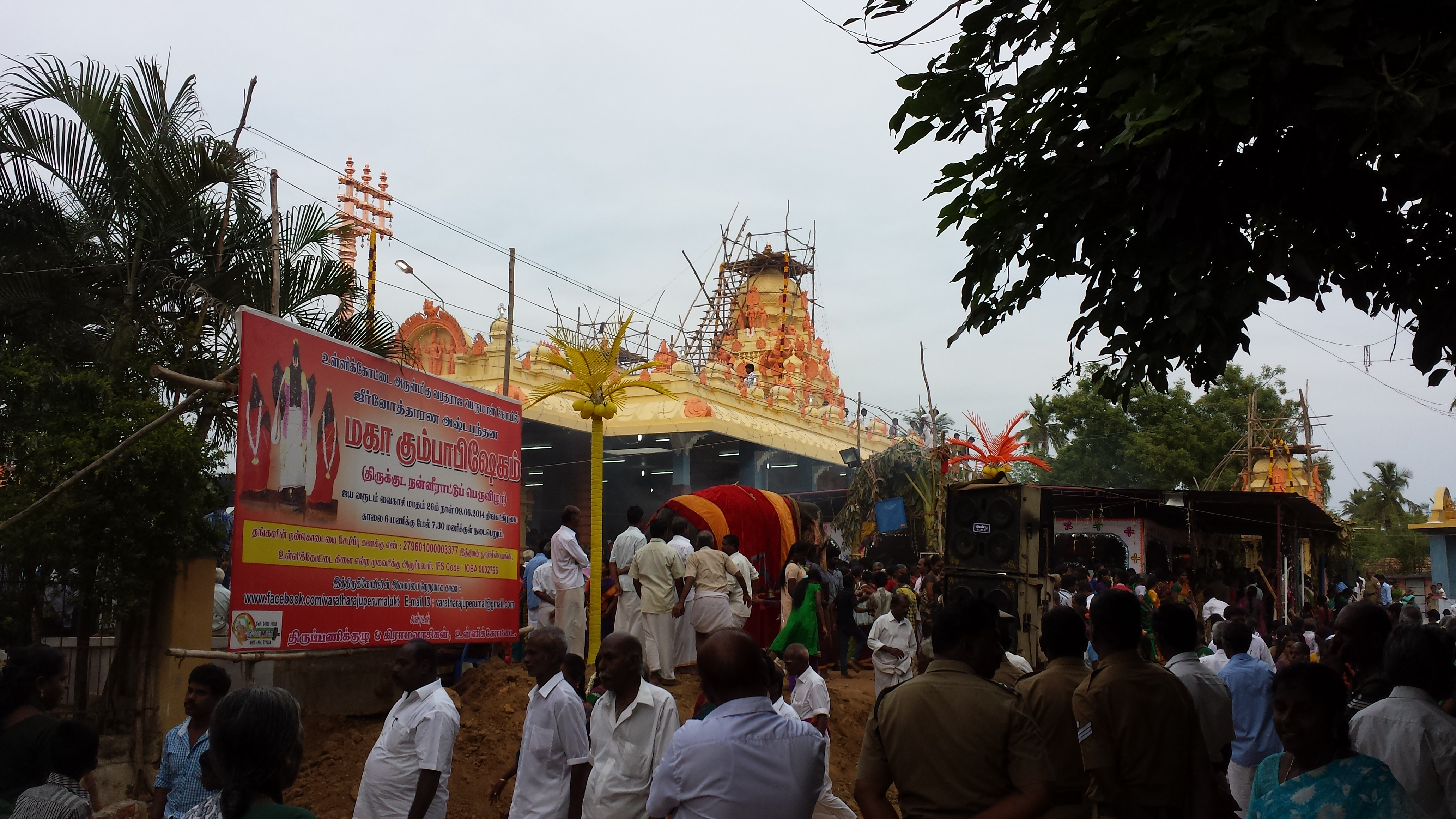 Arulmigu Varatharajapperumal, Ullikkorttai-Kumbabishekamஅருள்மிகு வரதராஜப்பெருமாள் திருக்கோவில்,உள்ளிக்கோட்டை-திருக்குட நன்னீராட்டுப் பெருவிழா அன்று இந்த ஒளிப்படம் எடுக்கப்பட்டது